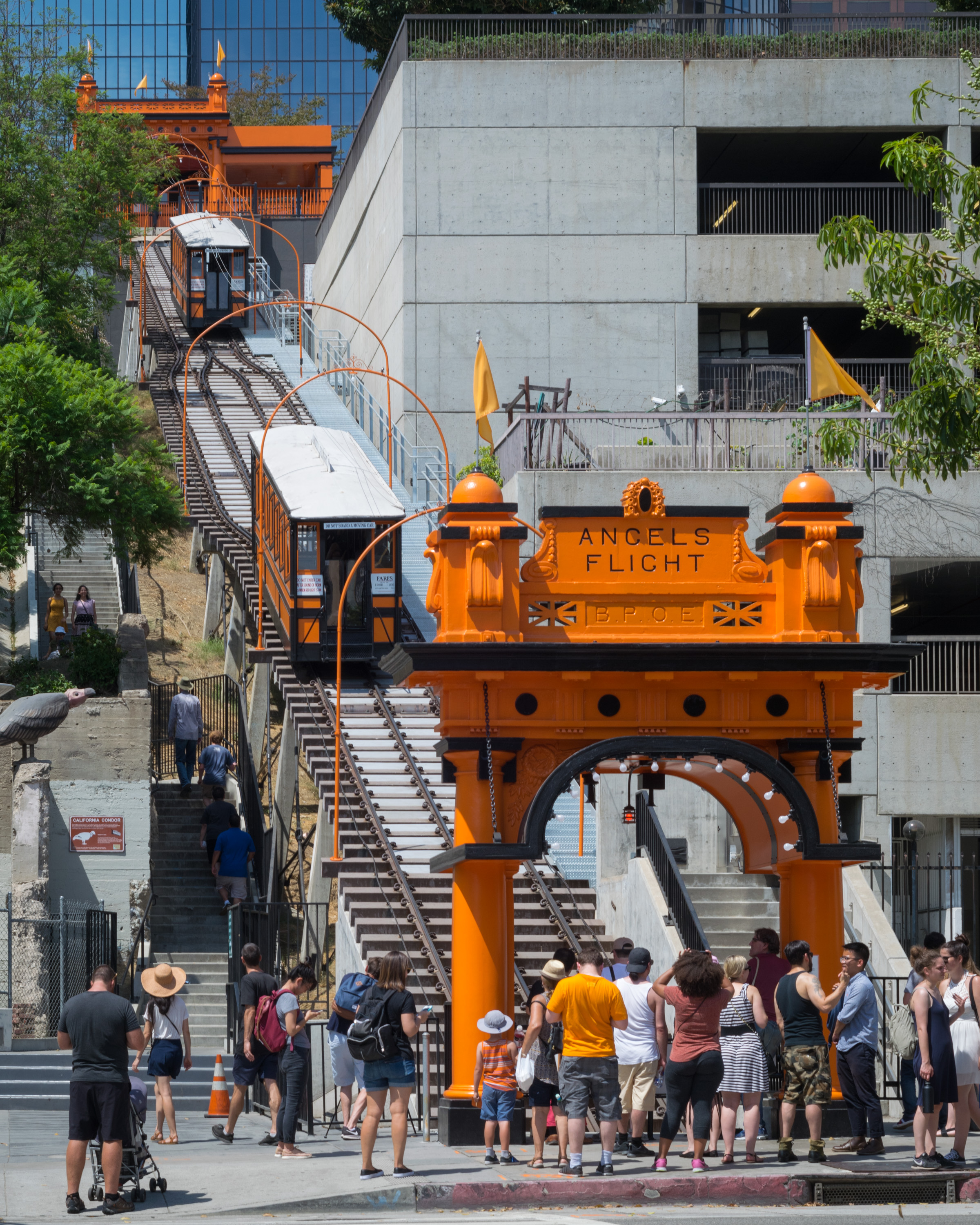 Angels Flight after reopening in September 2017